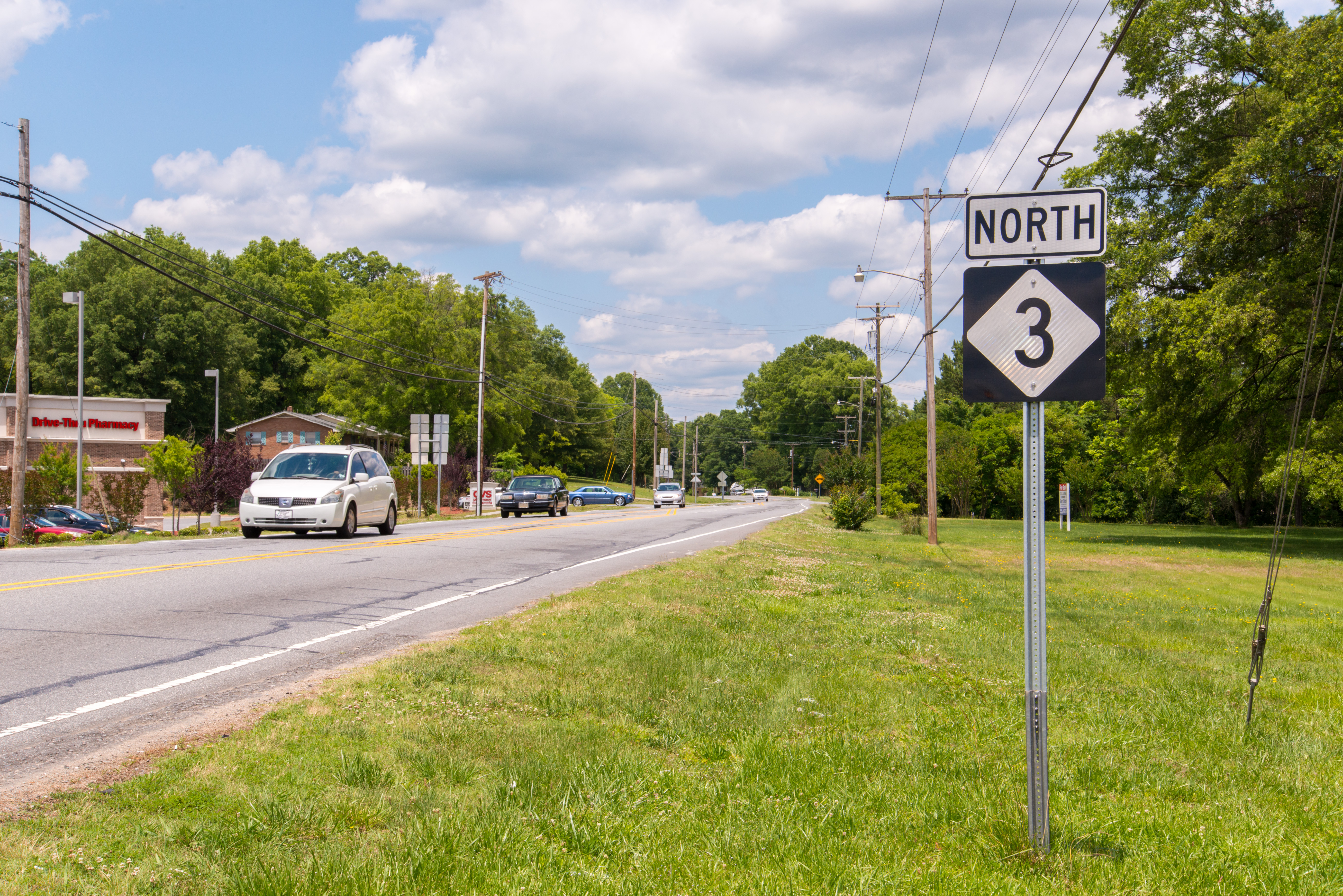 First sign northbound of North Carolina Highway 3, along Union Street, in Concord, North Carolina.